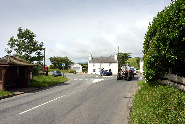 Braaid. A hamlet consisting of a crossroads and a few houses.